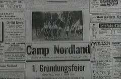 Newspaper headline, German American Bund camp; from: "Battle of the United States", Spies in US; FBI; J. Edgar Hoover, Story RG-60.4508, Tape 2820